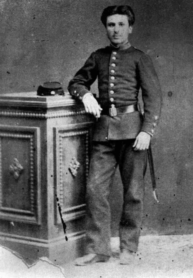 Photo of Panagiotis Danglis as cadet in 1870